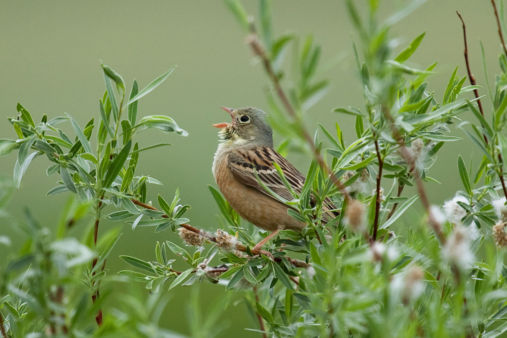 Ortolan Bunting Emberiza hortulana by Sergey Pisarevskiy. Altai Republic, South Siberia, Russia. 12.06.2011